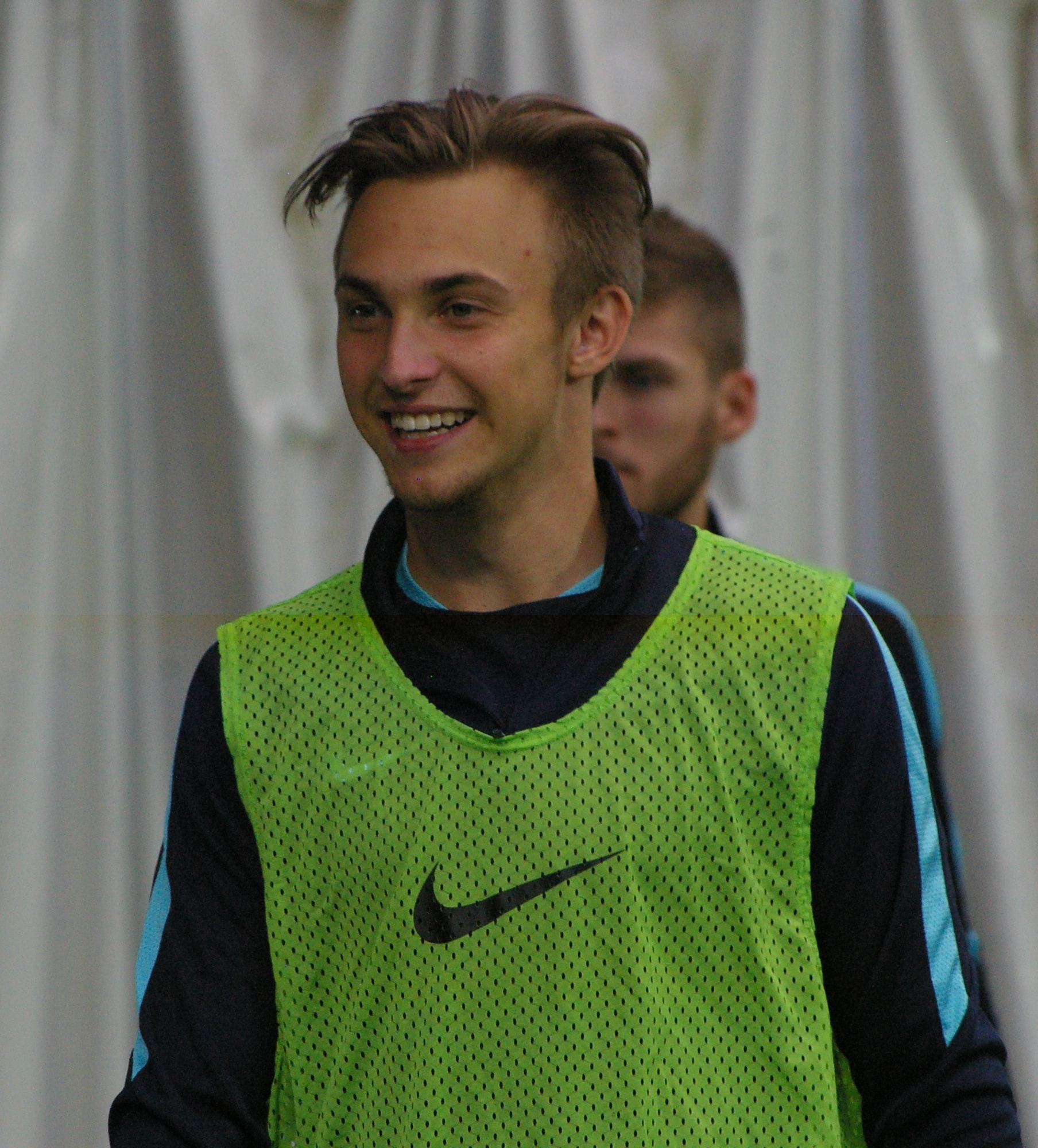 league match 10th round Austria 2nd league